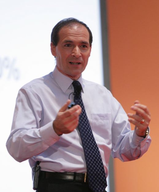 Dr Patrick Dixon lecturing at Ascent Business Leadership Forum